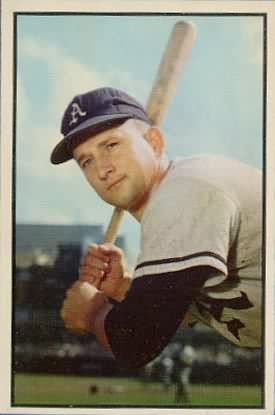 1953 Bowman Color baseball card of Joe Asthroth of the Philadelphia Athletics #82. PD-not-renewed